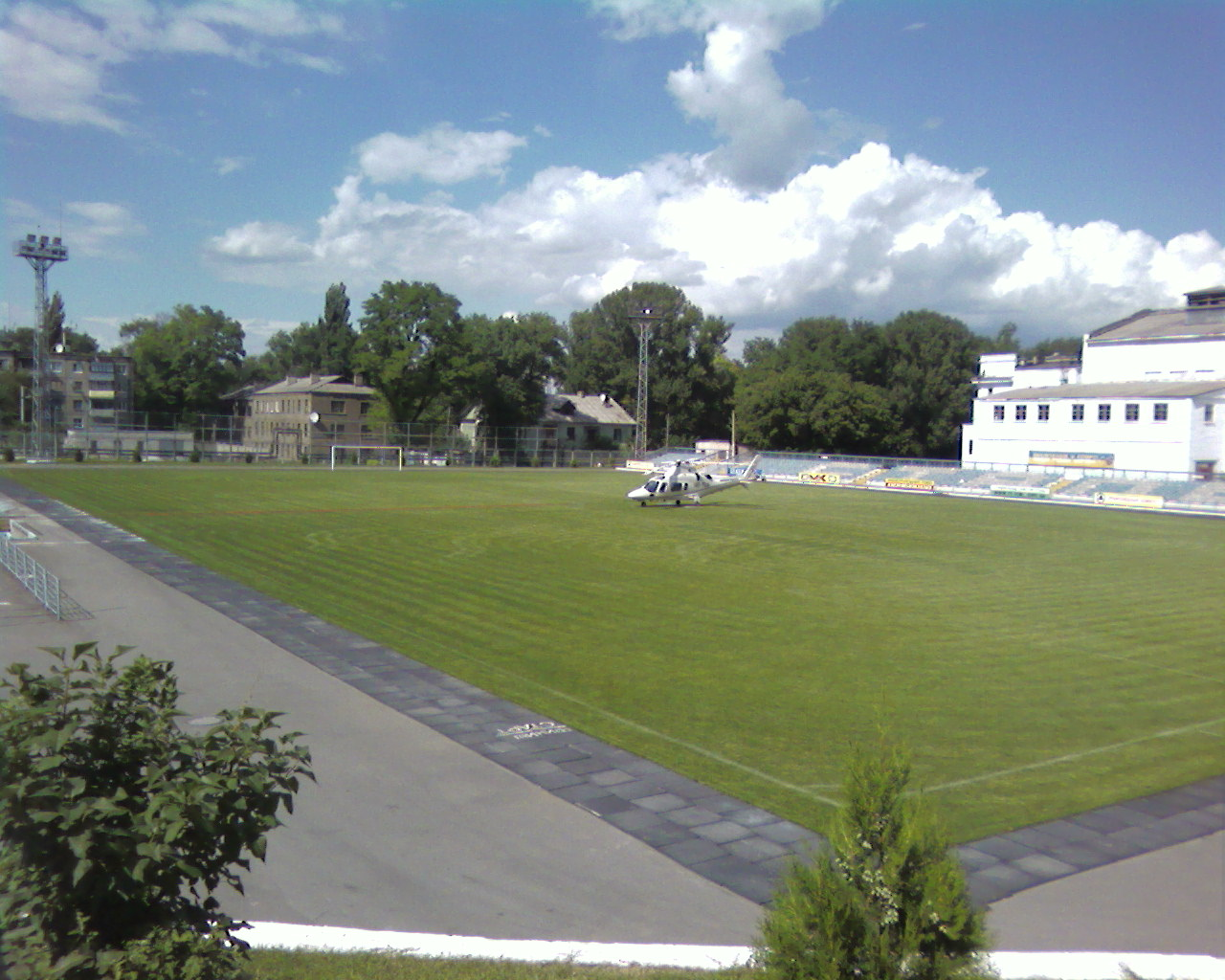 Metalurh Stadium in Dneprodzerzhinsk